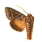 From Plate CCXXXVII